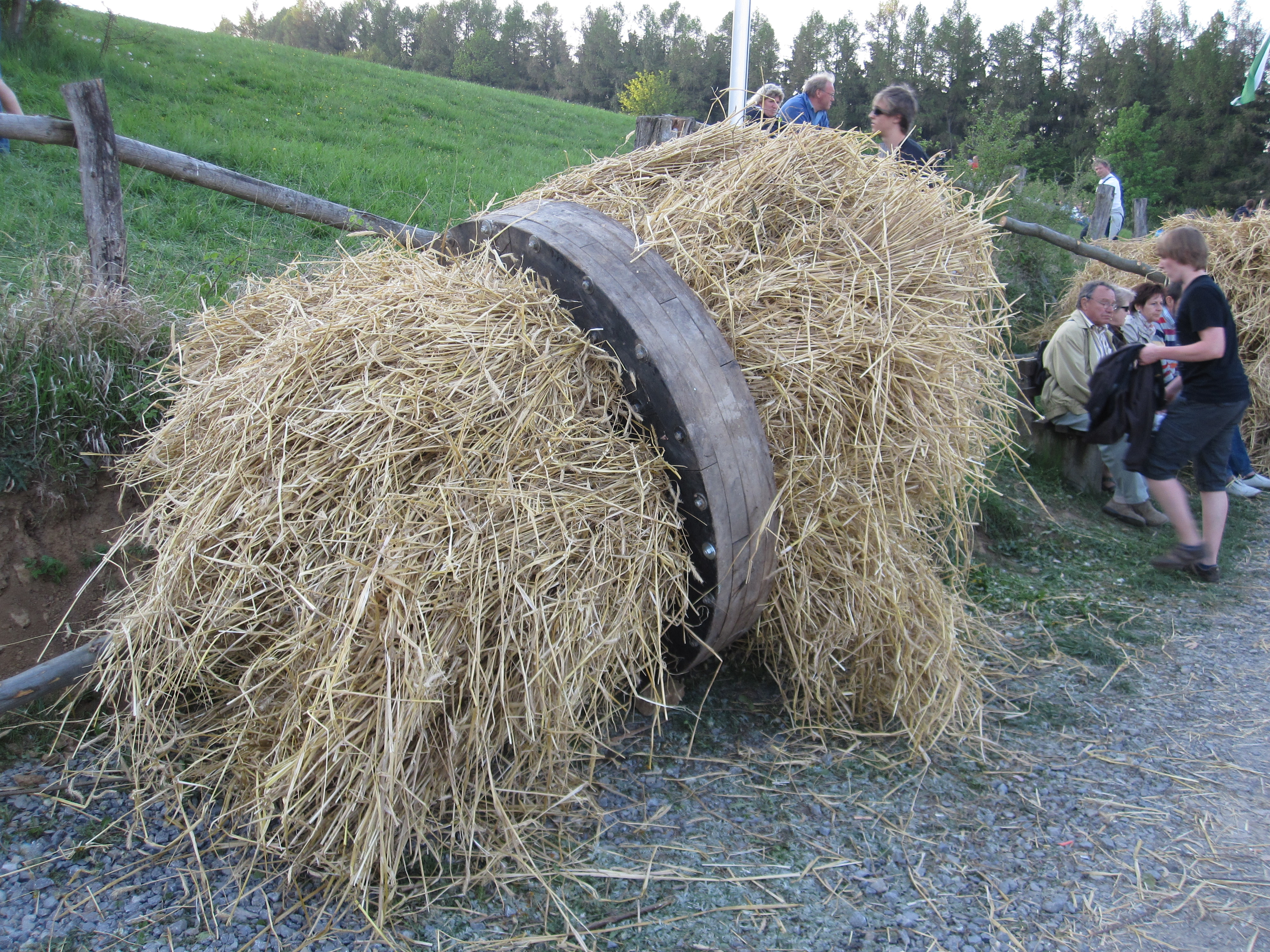 in Lügde, District of Lippe, North Rhine-Westphalia, Germany at the day of traditional "Easter wheels" run.